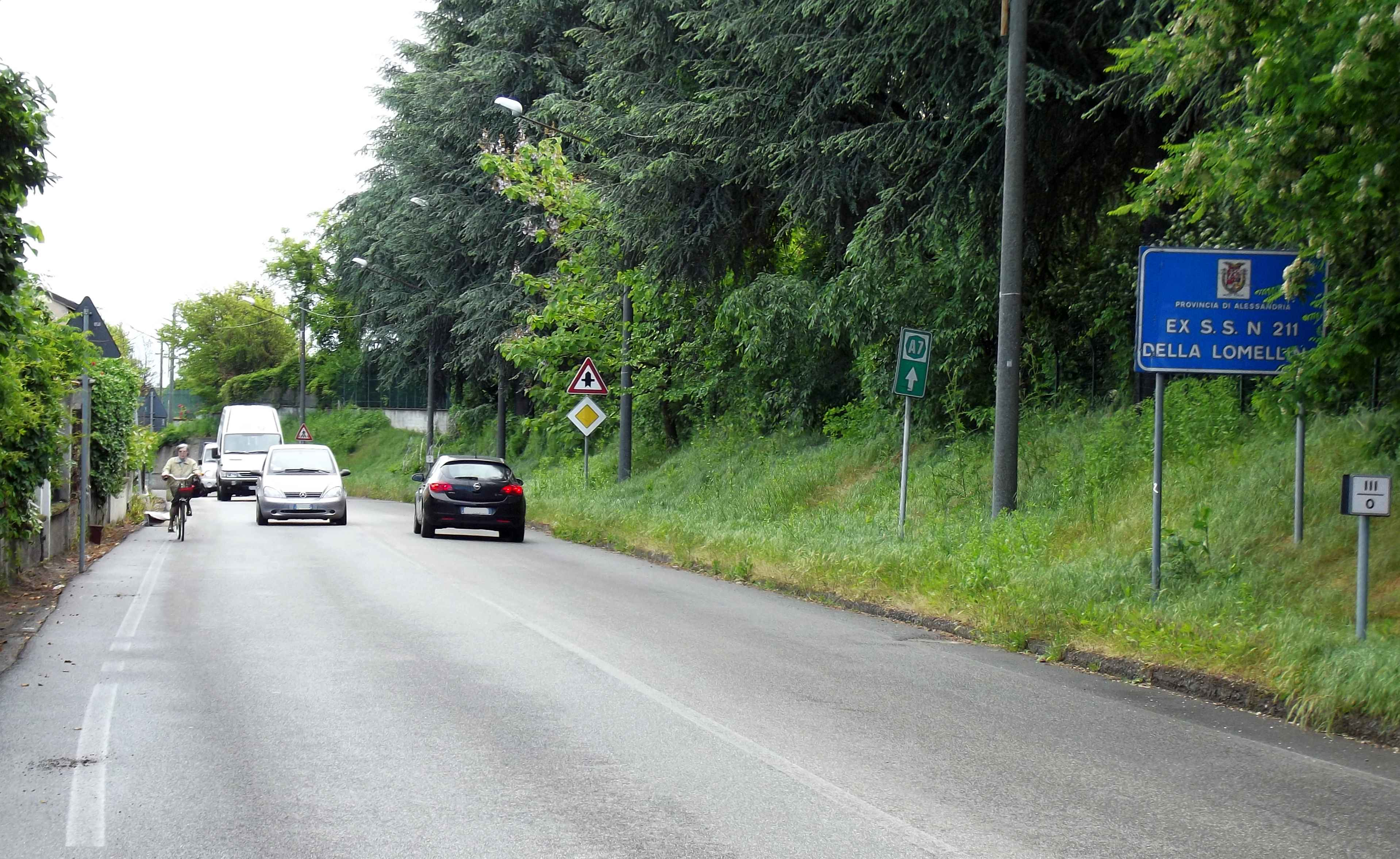 Pozzolo Formigaro (AL, Italy): starting sign of Strada Statale 211 della Lomellina